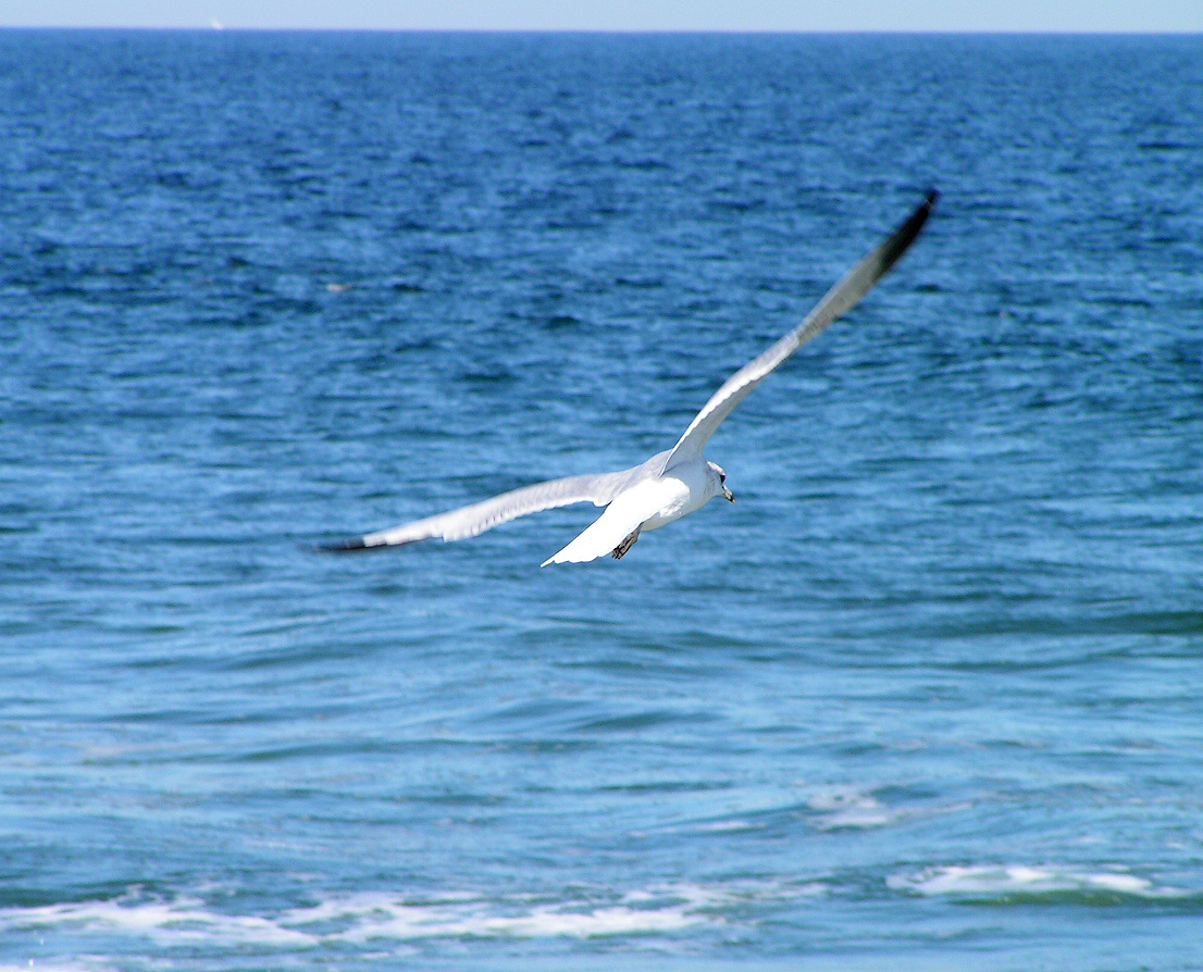 Seagull in Loch Arbour, Monmouth County, New Jersey